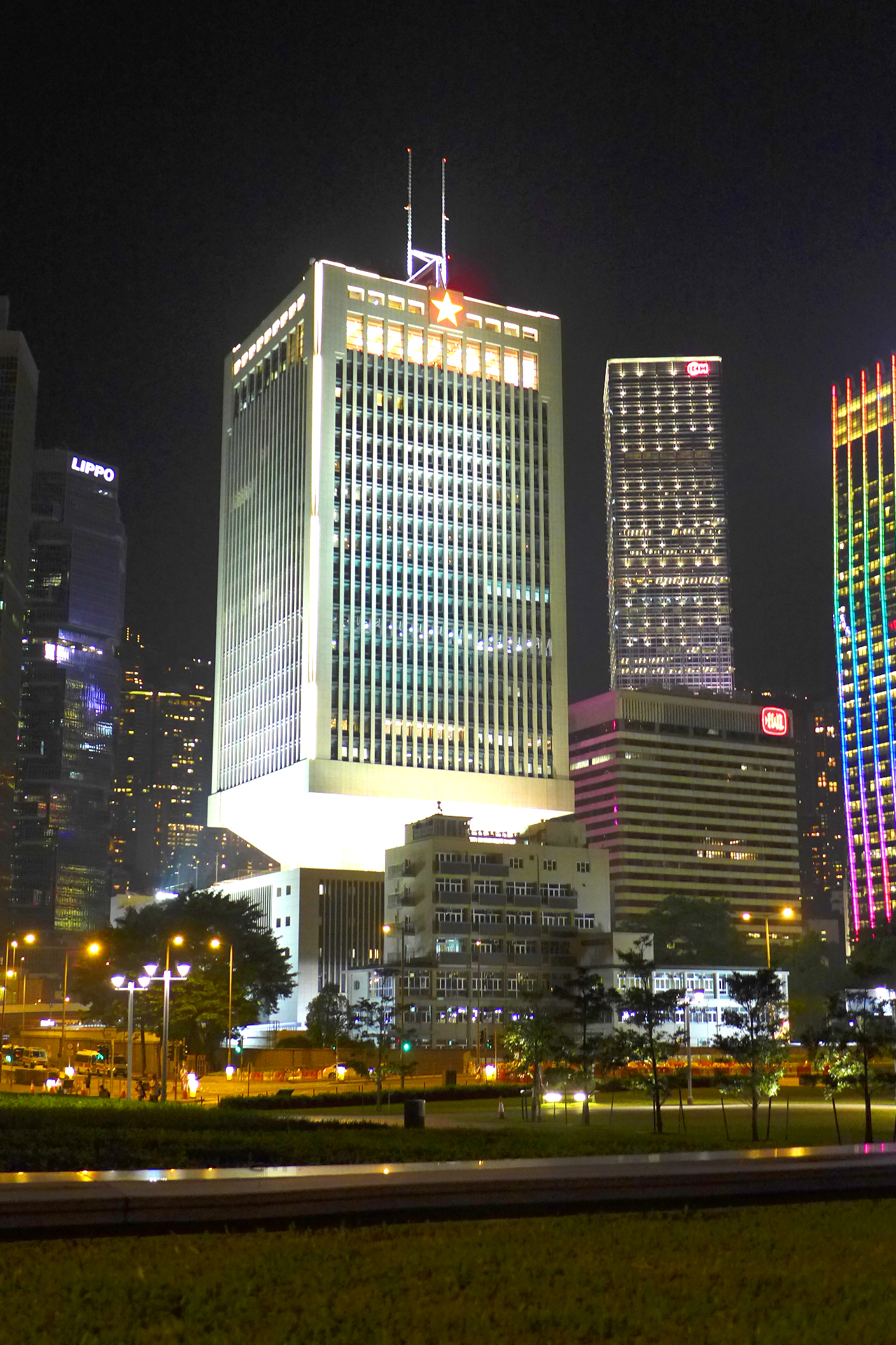 Chinese People's Liberation Army Forces Hong Kong Building